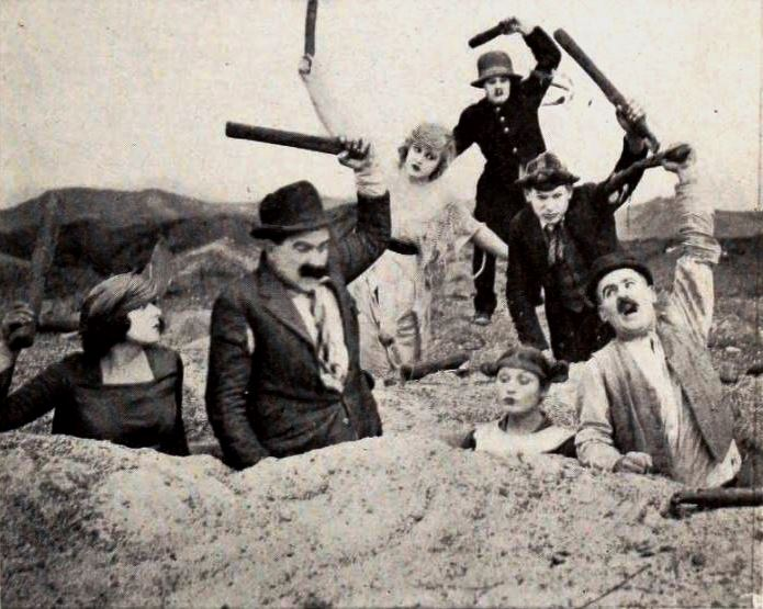 Still from the American comedy short film Her Naughty Wink (1920) with an unidentified actress, Edgar Kennedy, Ethel Teare, two unidentified actors, and Billy Franey, on page 67 of the February 21, 1920 Exhibitors Herald.